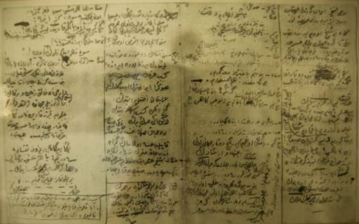 Manuscript of Sheikh Sanan